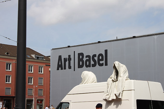 Public Art Project on Tour in Basel, Manfred Kielnhofer, Design Miami / Basel, Liste, Scope, Volta, ... Shared by Austrian designer Manfred Kielnhofer. The “Light Guards” project is further developed and become a ghost car touring in Basel art show during June 15 – 19 2011.